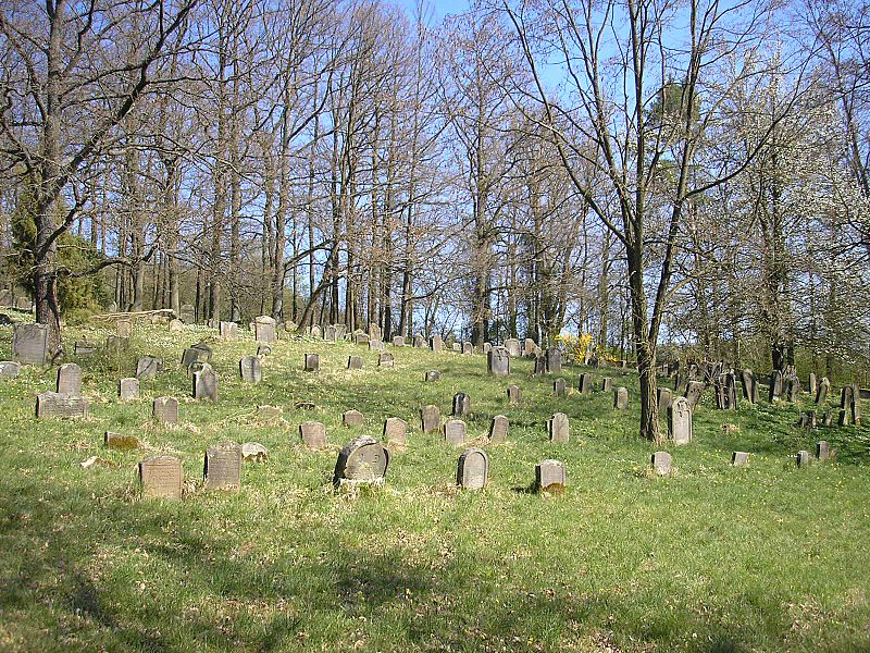 Ebern (Landkreis Haßberge, Lower Franconia, Germany). Historic Jewish cemetery (1633)